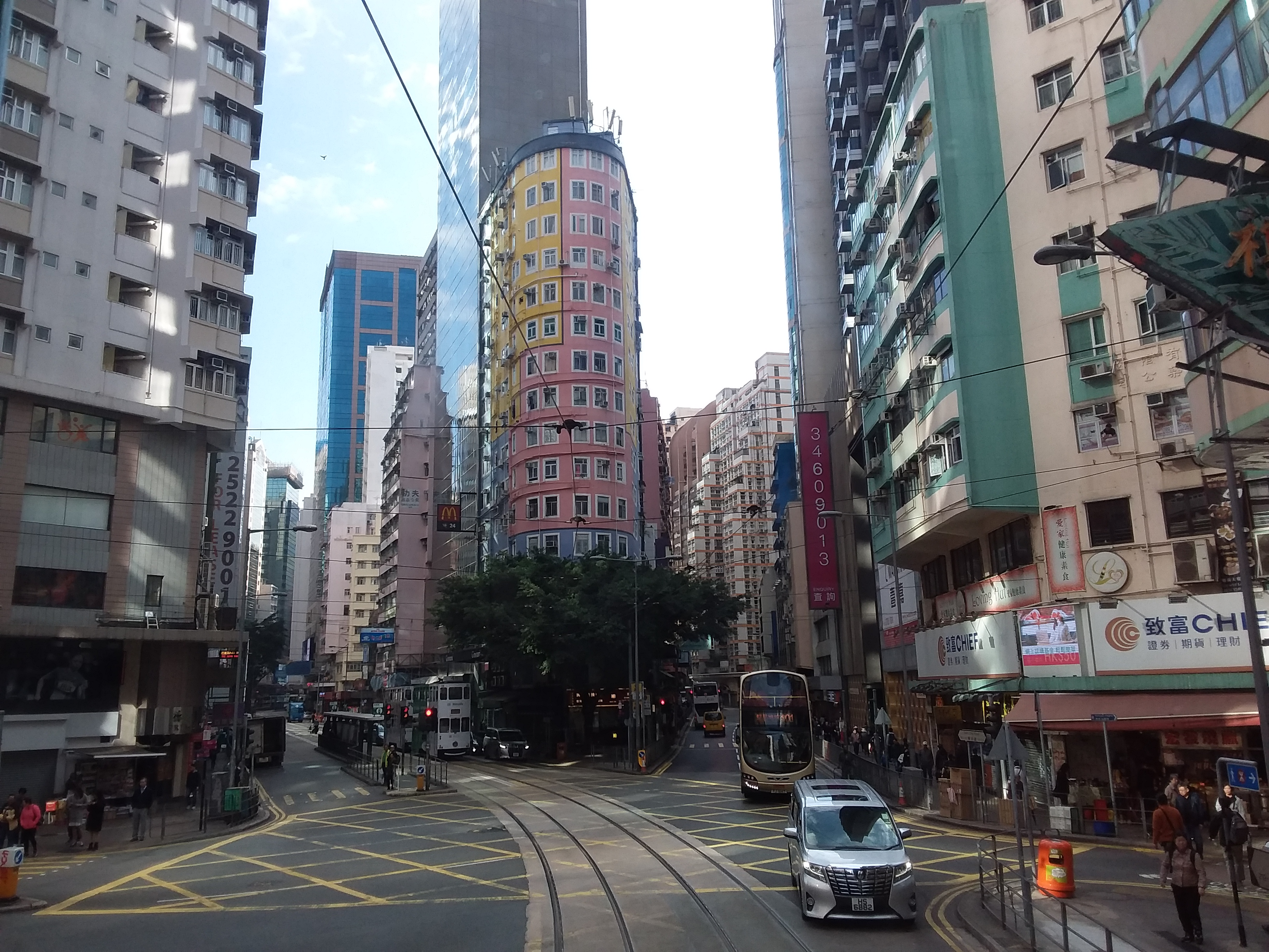 HK 灣仔 Wan Chai in January 2019